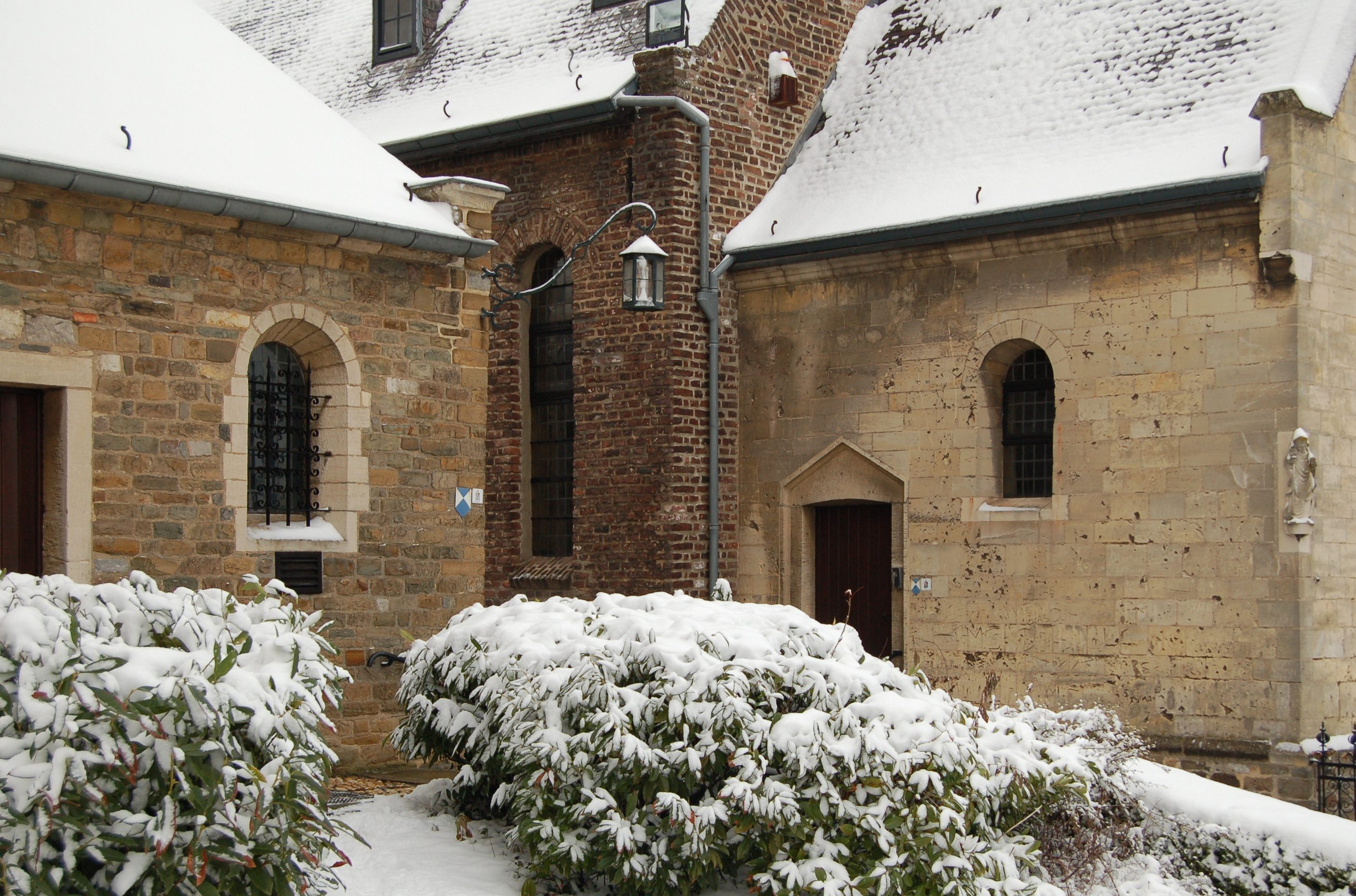 Basilika and St.Mary-Chapel in St. Odilienberg, Netherlands